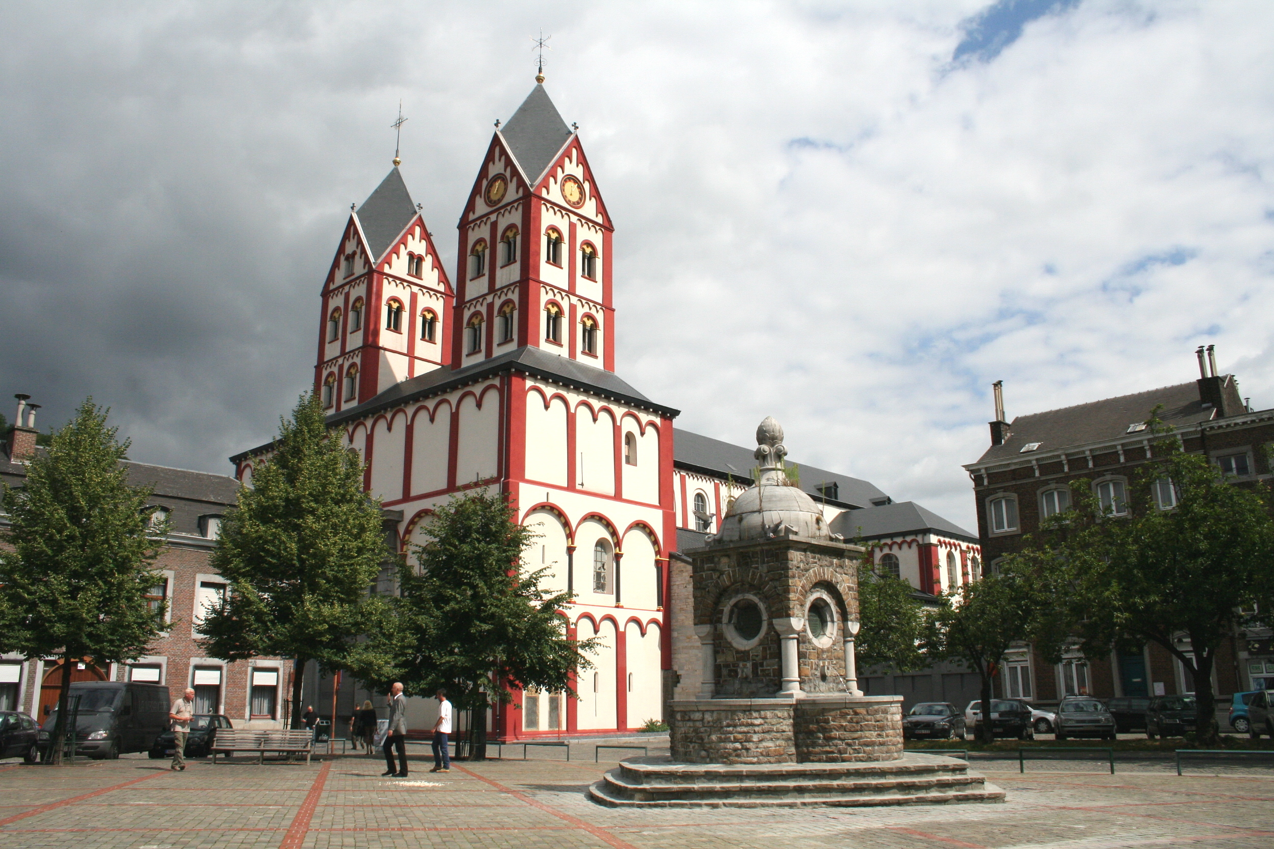 Liège (Belgium), the Saint Bartholomew Collegiate church (XI-XIIth century).